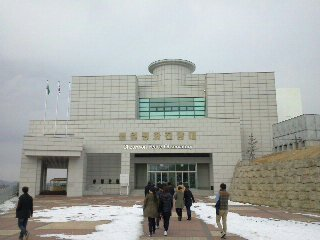 cheolwon peace observatory